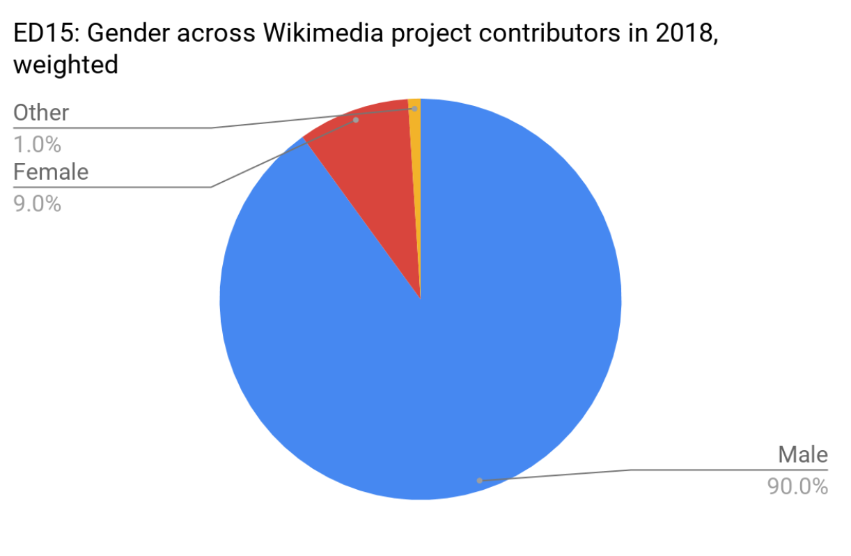 Visualization of data from meta:Community_Engagement_Insights/2018 Report. Generated via Google Docs.